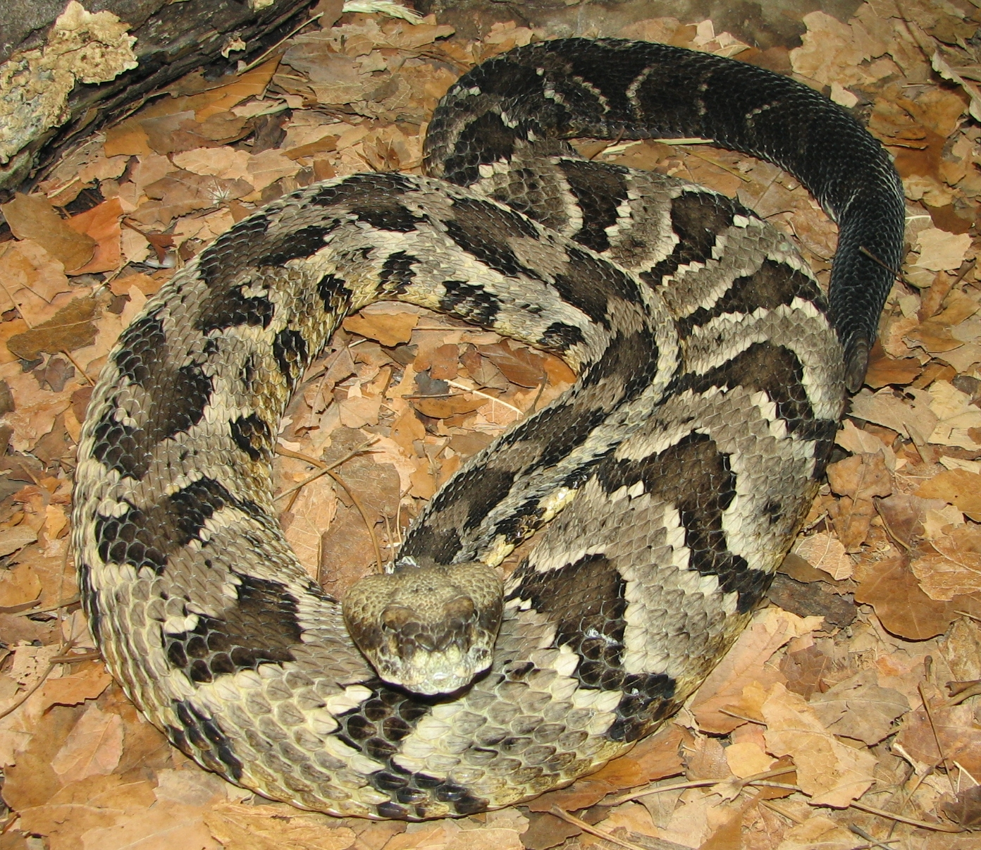 Timber Rattlesnake - Crotalus horridus